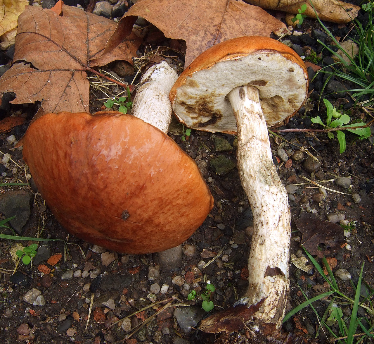 Leccinum aurantiacum